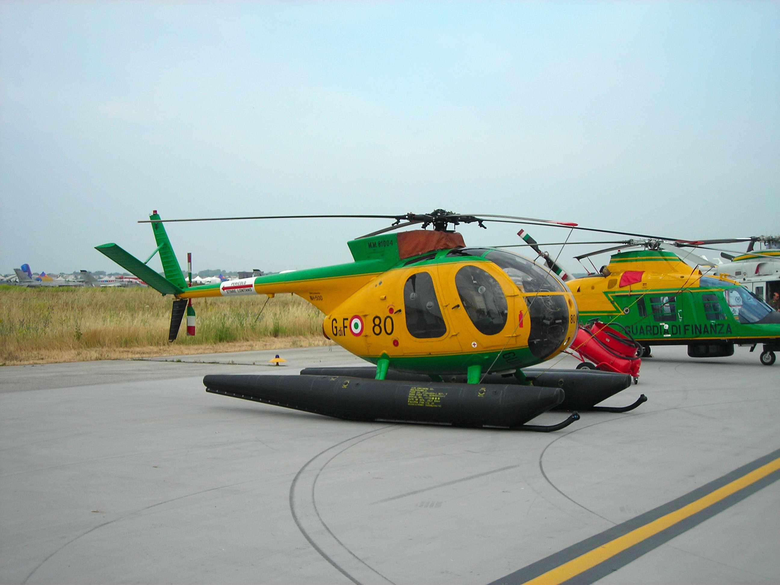 Picture taken during "Giornata Azzurra" 2007 (Italian Air Force airshow) at Pratica di Mare AFB, Italy. NH-500 of Guardia di Finanza (Italy)